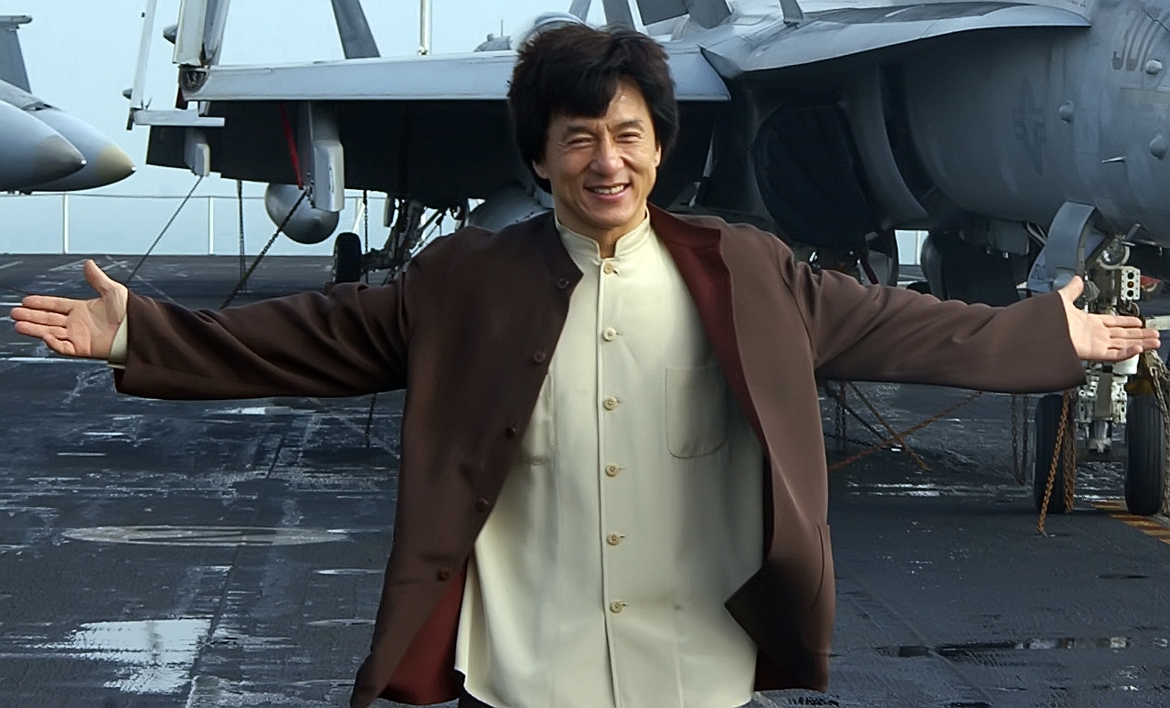 International action-movie star and Hong Kong native Jackie Chan enjoys his experiences on the flight deck during a tour of the Kitty Hawk. USS Kitty Hawk's current mission is to provide a forward presence in the Asia/Pacific region, conduct training and exercises with regional allies, and, as America’s “9-1-1” Battle Group, remain available to respond to emergent national taskings wherever and whenever needed. (Image 021202-N-0271M-011)